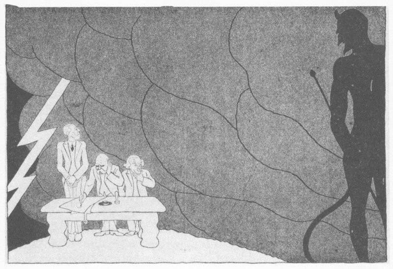 The peace treaty of Versailles is signed and the devil laughs at it.